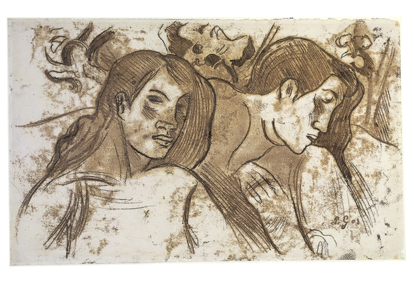 Two Marquesans, a monotype by Paul Gauguin, created in 1902